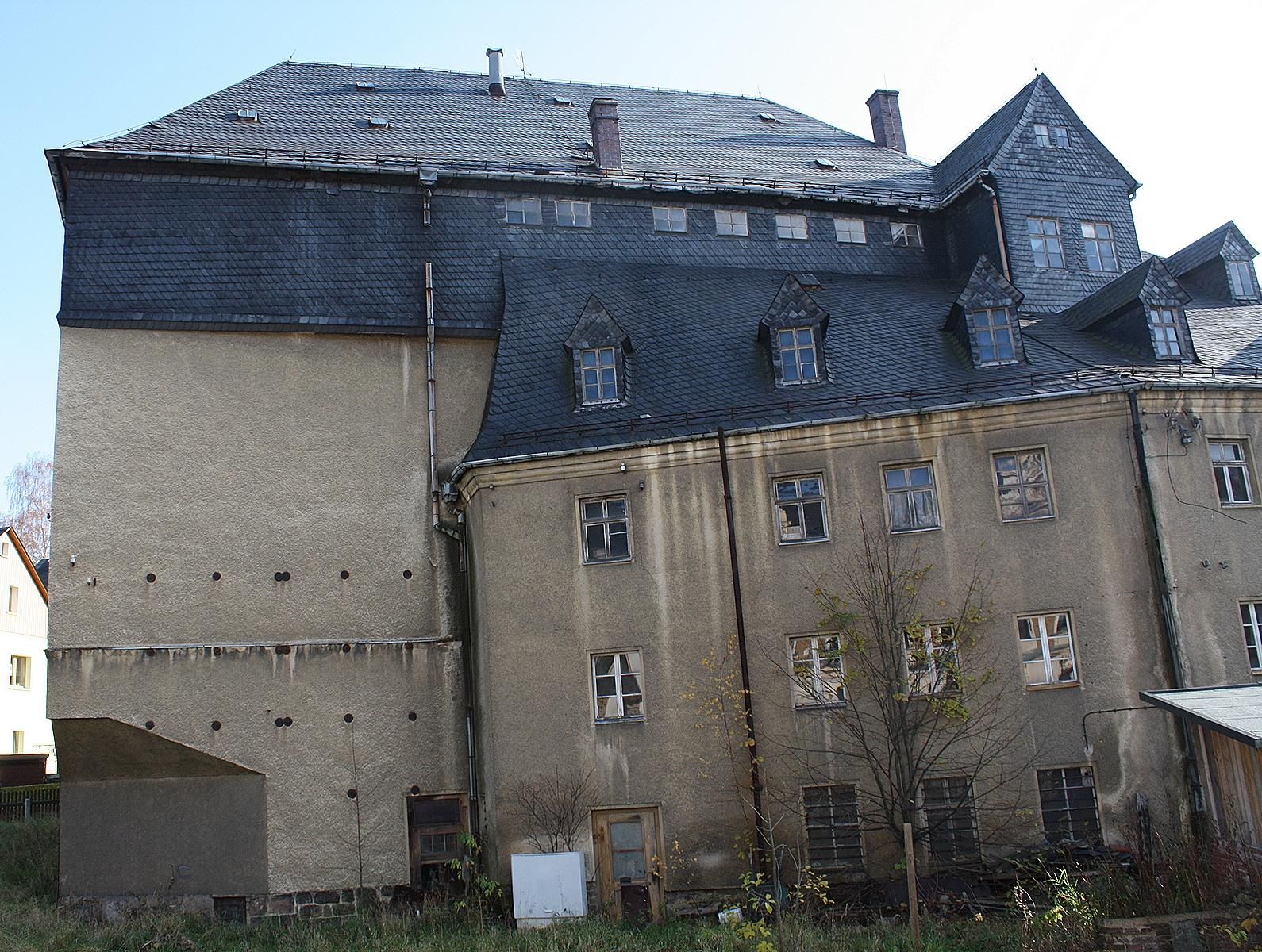 Herrenmühle Mill Schwarzenberg towards Schwarzwasser river.